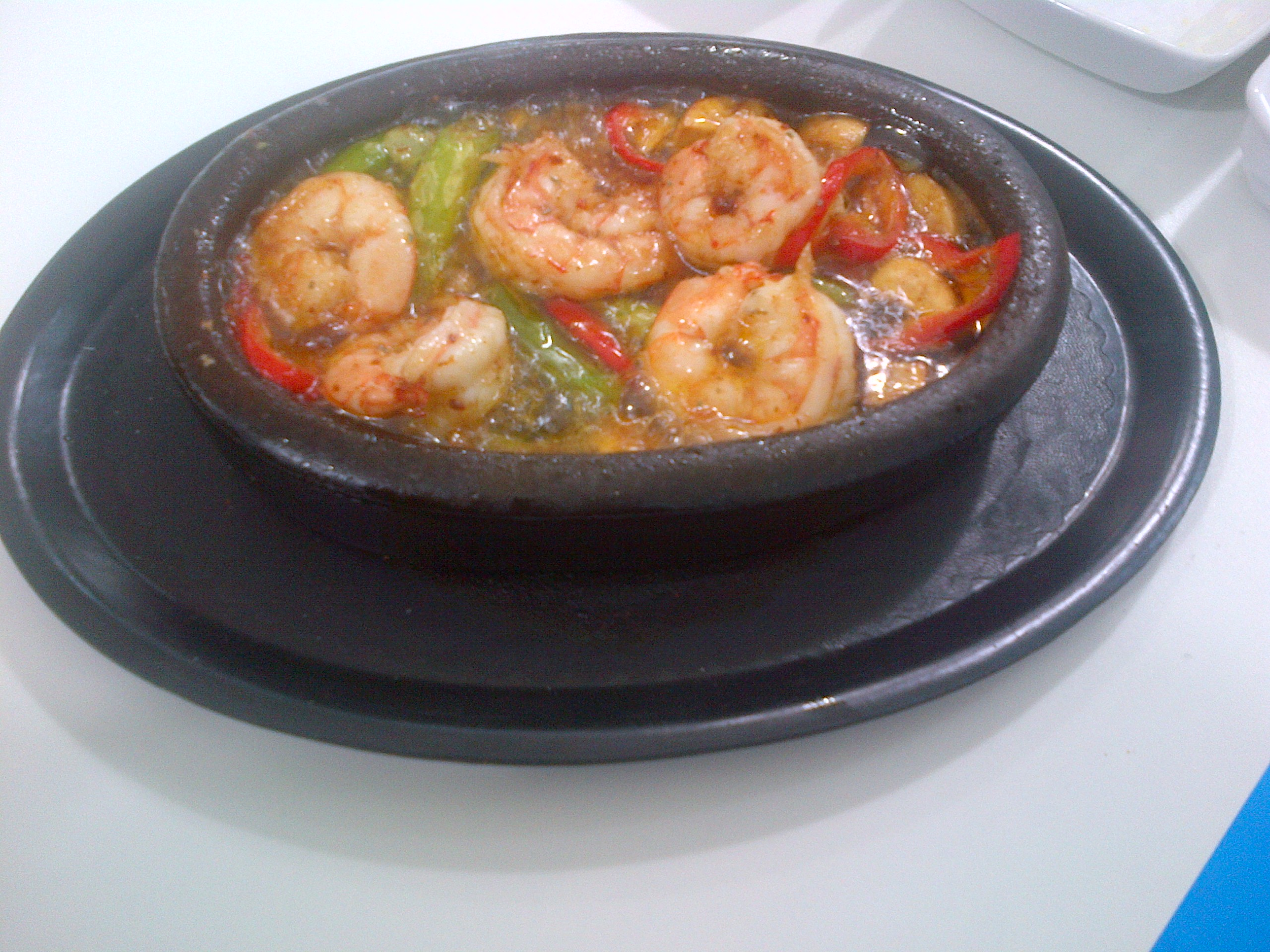 "Gambas al ajillo" (garlic prawns) is a Spanish dish. Here the Turkish style version: Also with garlic and butter but also with the addition of green and red peppers and some mushrooms ...